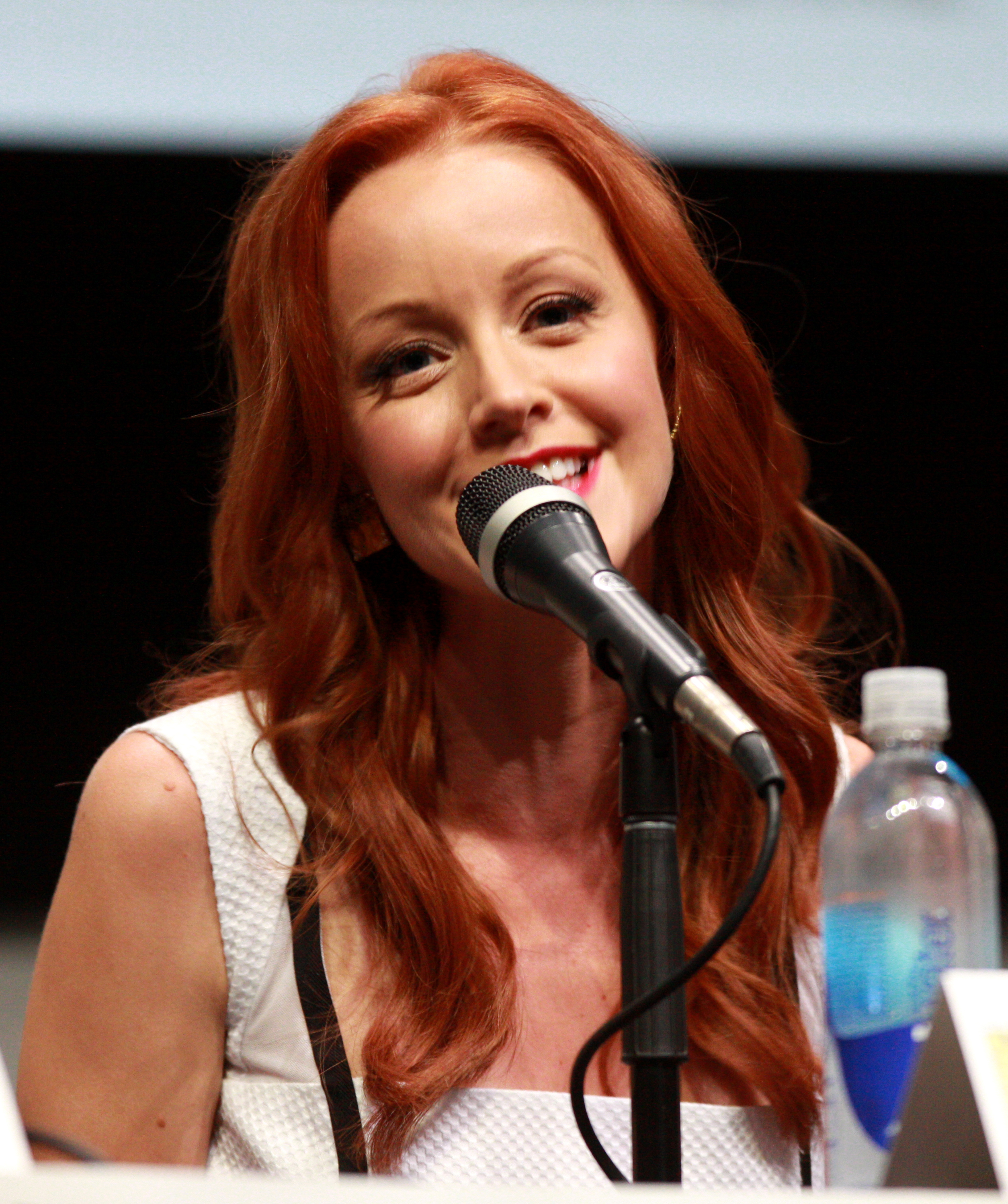 Lindy Booth at the 2013 San Diego Comic Con International in San Diego, California.